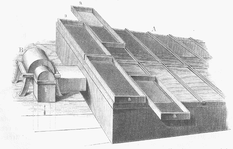 Hop kiln.